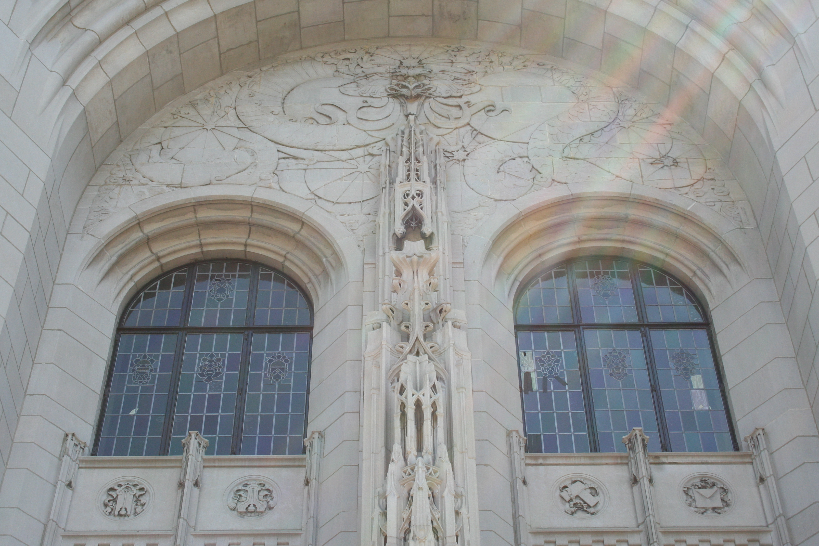 Dragon relief above the main entrance of the Scranton Cultural Center at the Masonic Temple in Scranton, Pennsylvania.